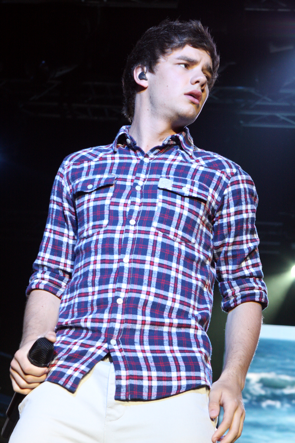 One Direction performs at Hordern Pavilion, Moore Park, Sydney, Australia